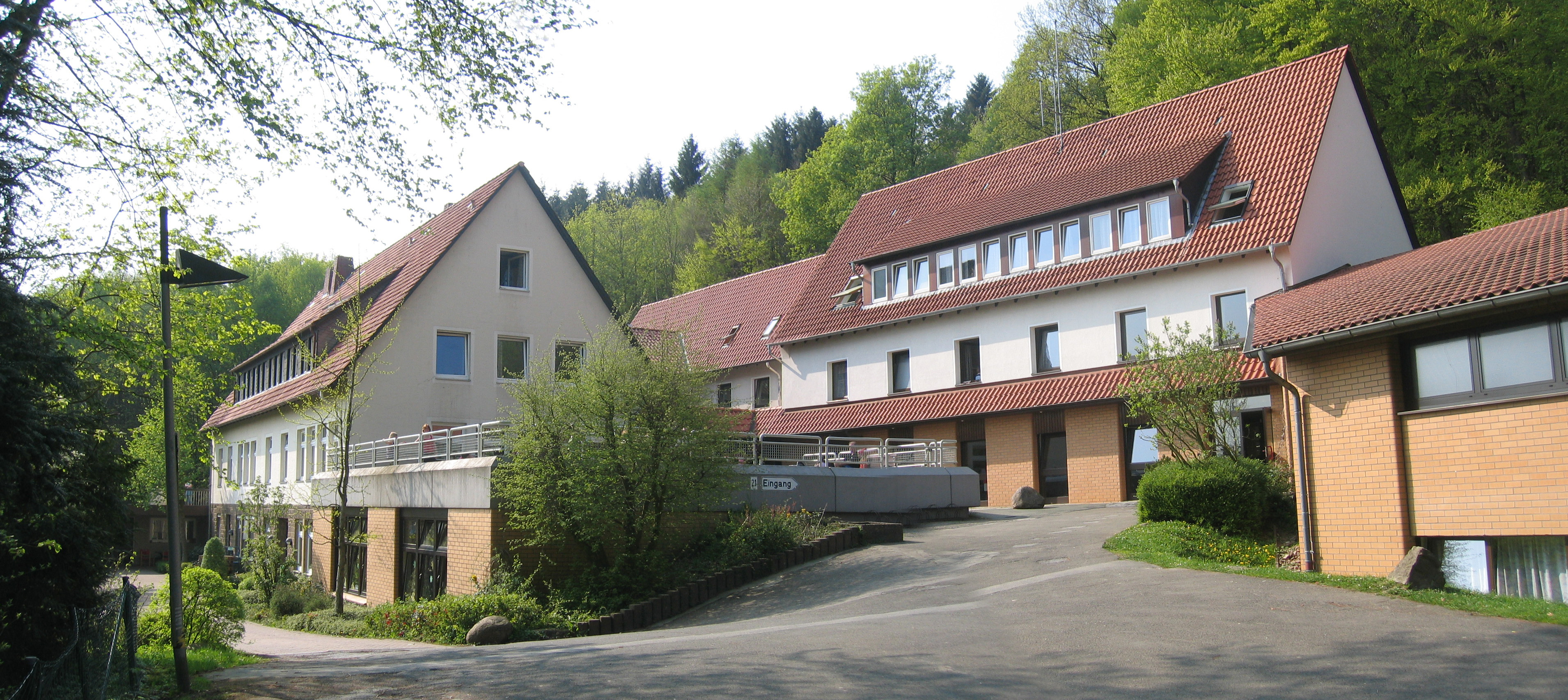 Youth hostel in Rödinghausen, District of Herford, North Rhine-Westphalia, Germany.